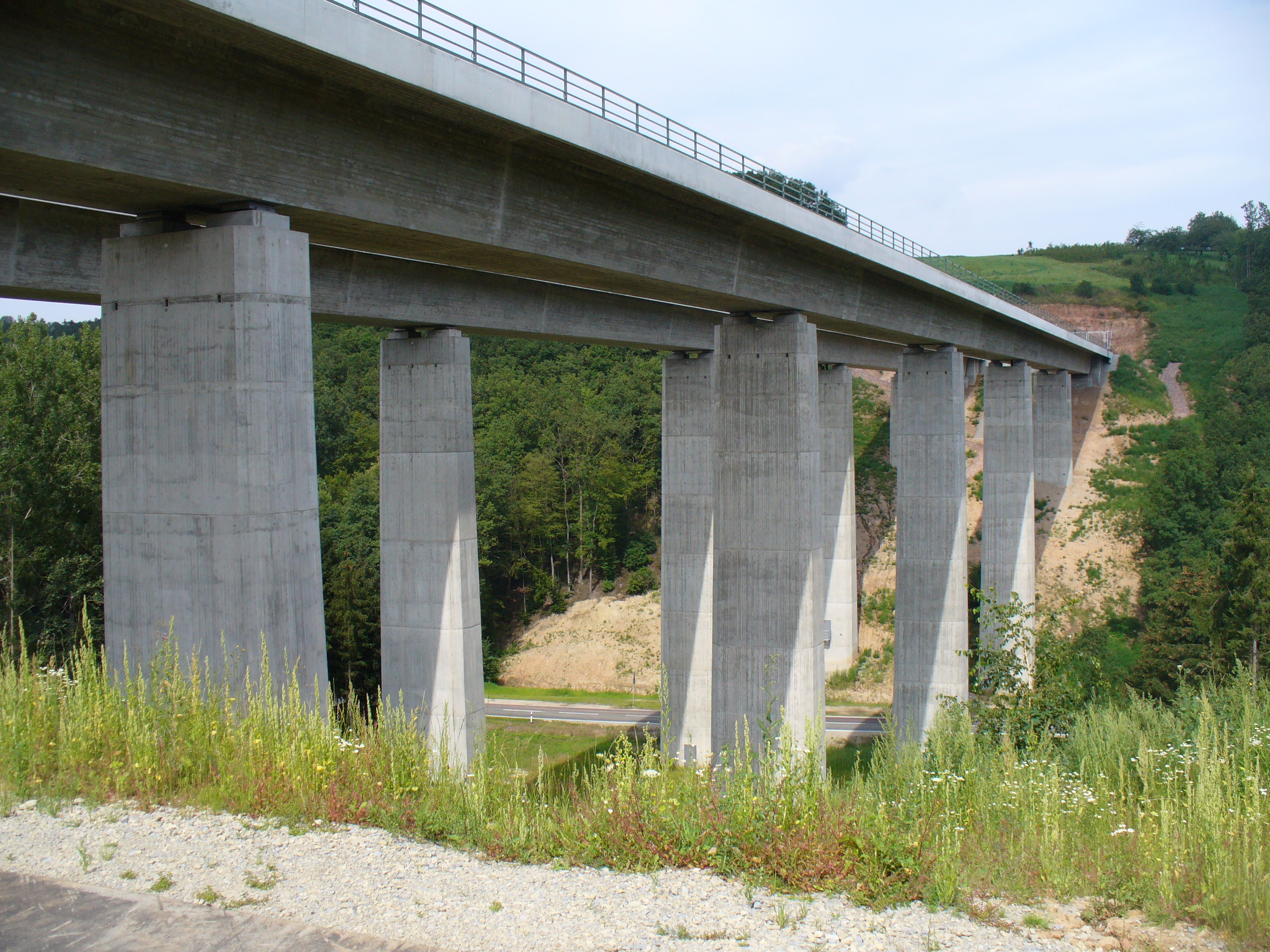 View on the (already finished) Saubachtal Bridge, Erfurt-Leipzig/Halle high-speed railway line.